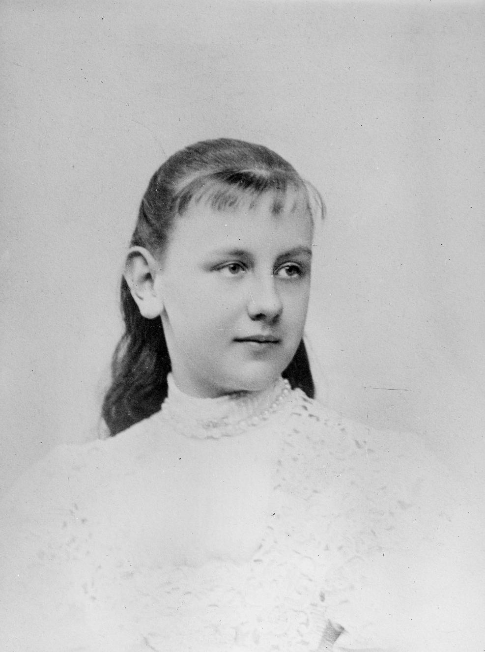 Queen of Holland